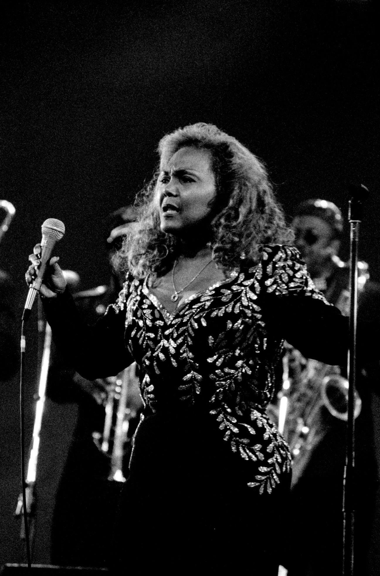 Vicki Anderson Jazztage Leverkusen, 1996 Minolta XD-7, Kodak T-MAX 3200